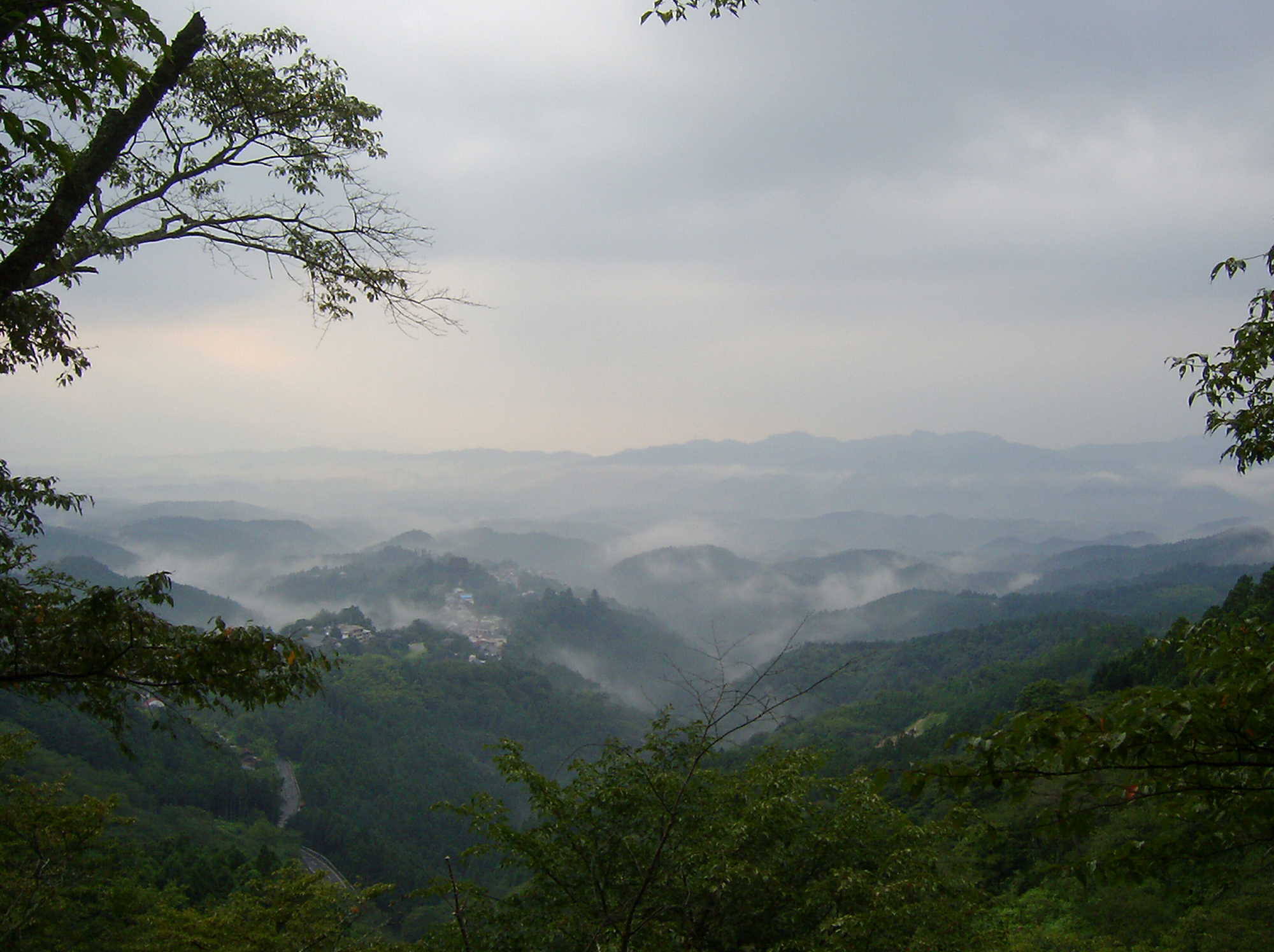 Mt. Yoshino-yama distant view after the rain